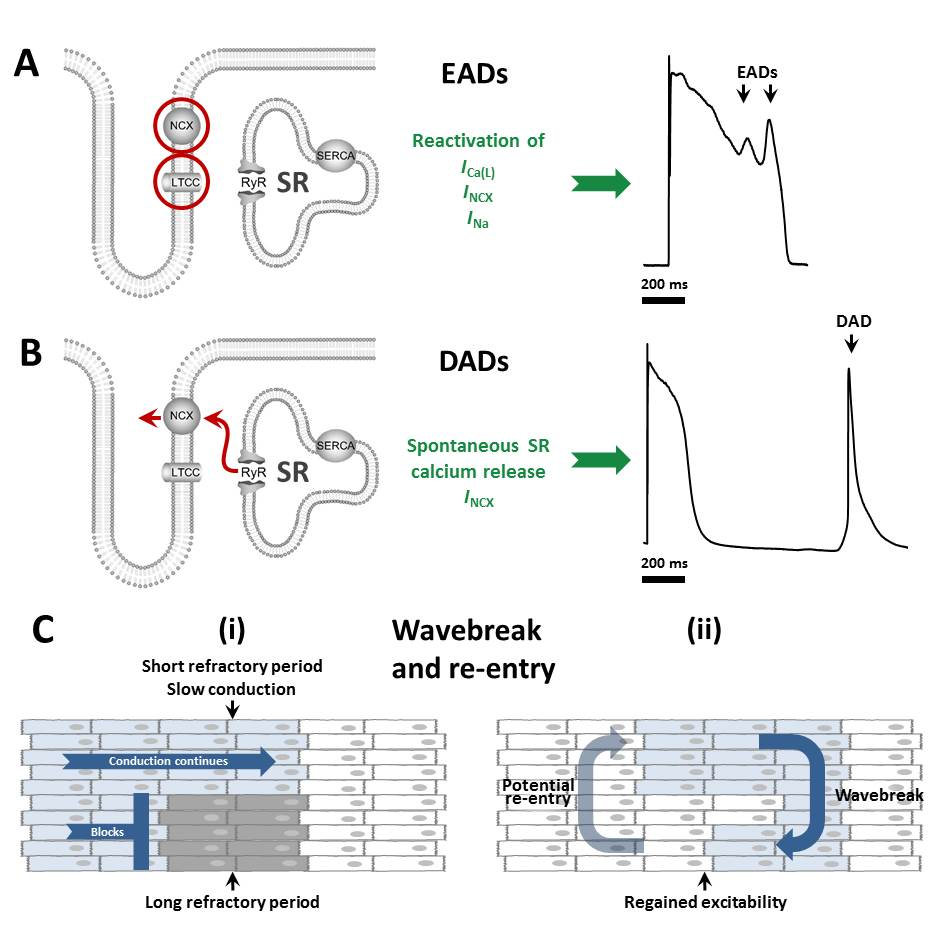 Cartoon showing mechanisms underlying early afterdepolarisations, delayed afterdepolarisations, and re-entry